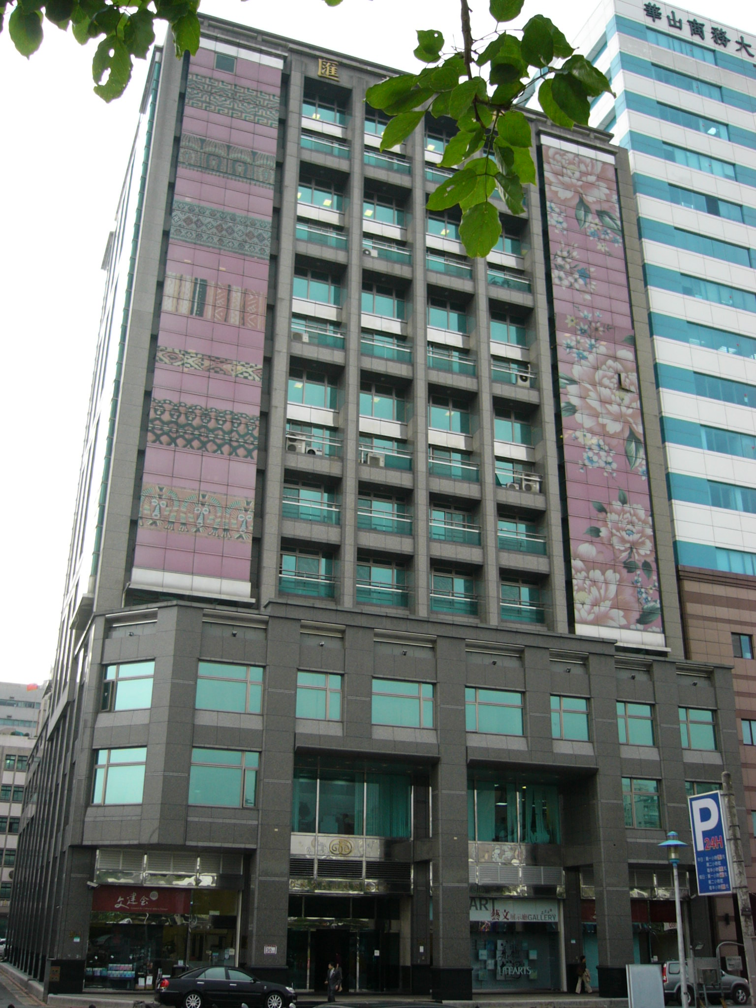 Hui-tai Building in Taipei City of Council for Cultural Affairs, Executive Yuan, Republic of China.Bân-lâm-gú: Tiong-huâ Bîn-kok Hîng-tsìng-īnn Bûn-huà Kiàn-siat Uí-guân-huē tī Tâi-pak-tshī Pak-pîng-tang-lōo Huē-thài Tuā-lâu lāi-té. 中華民國行政院文化建設委員會，佇臺北市中正區北平東路「匯泰大樓」內底。